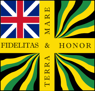 Flag of regiment of swiss lieutenant general Charles-Daniel de Meuron